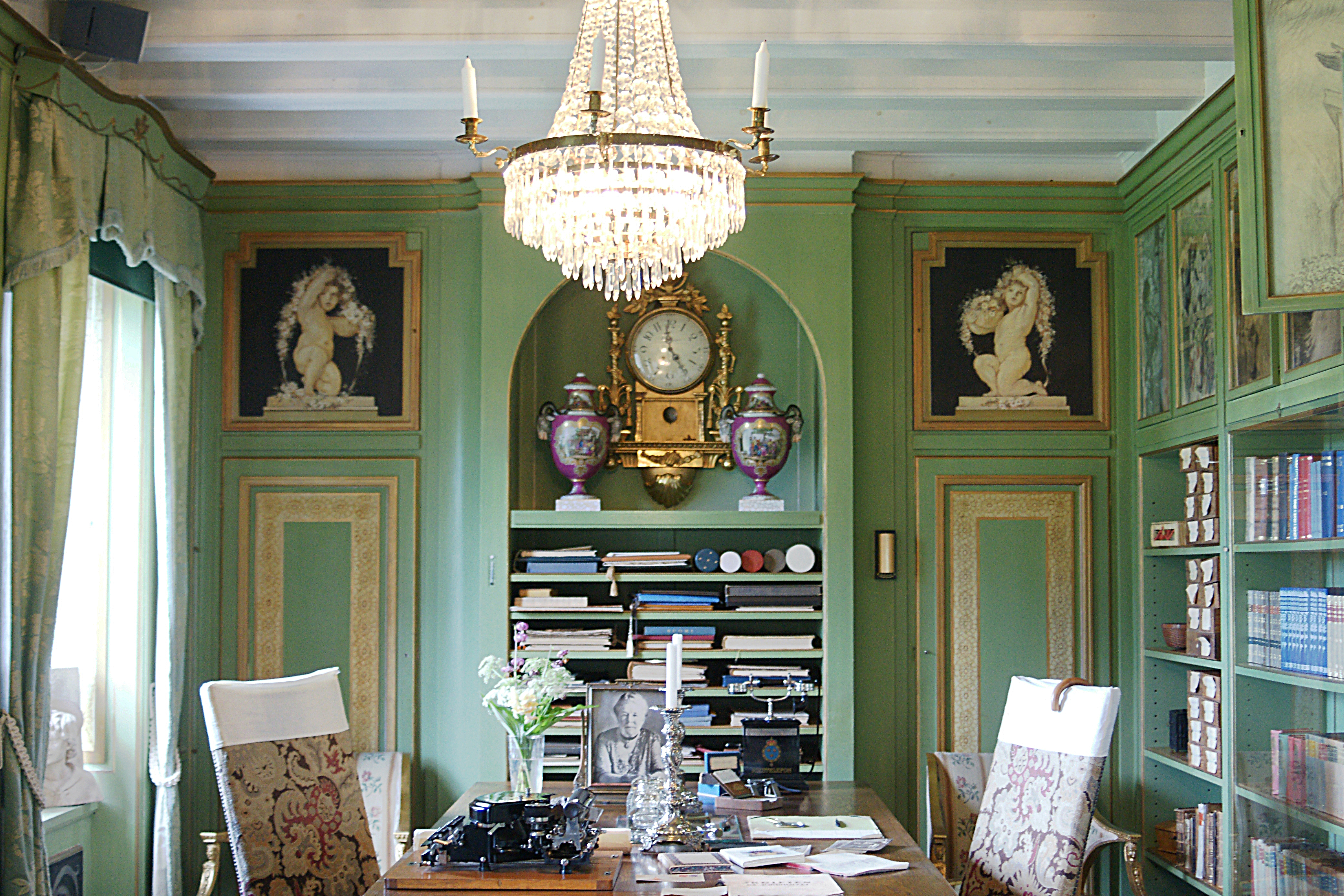 Swedish author Selma Lagerlöf's study in her home at Mårbacka.